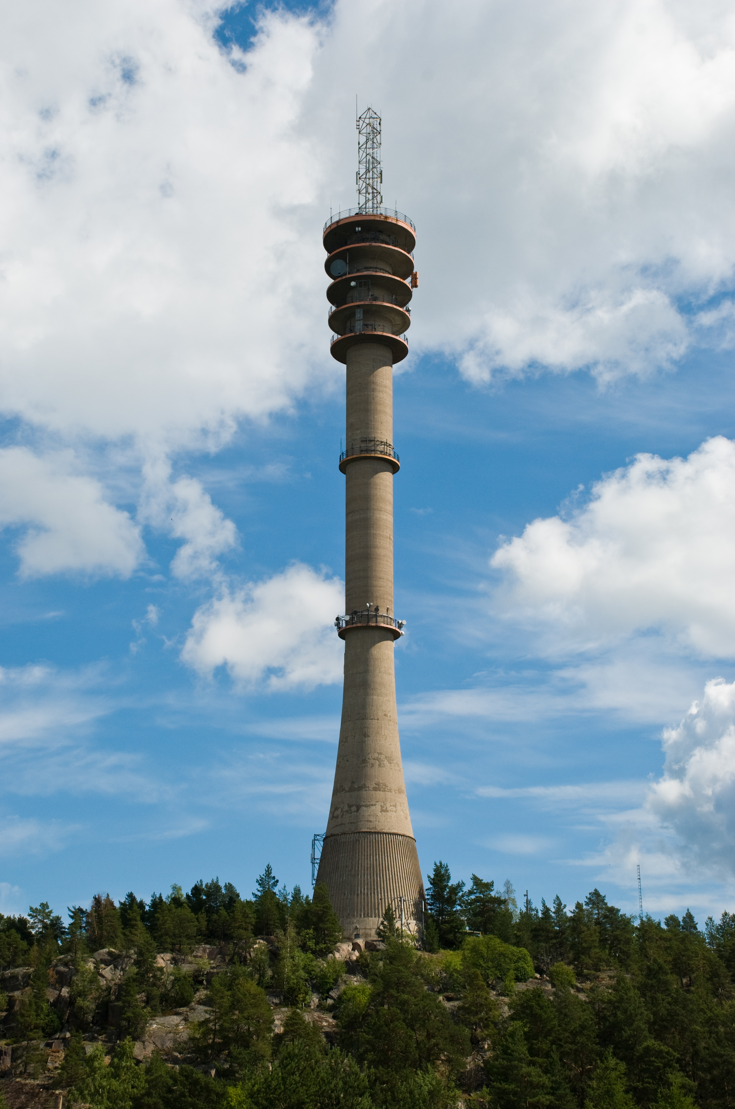 Pääskyvuori radio tower in Turku, Finland.